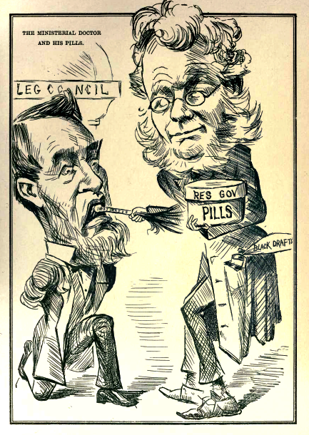 The Ministerial Doctor. Dr Henry White of the Molteno Ministry administering the medicine of Responsible Government and Black political growth to a resistant Legislative Council. Legislative Council possibly shown as Robert Godlonton. 1874. Originally appeared in Zingari. 31 July 1874.